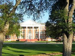 UMHB Campus with Student Center